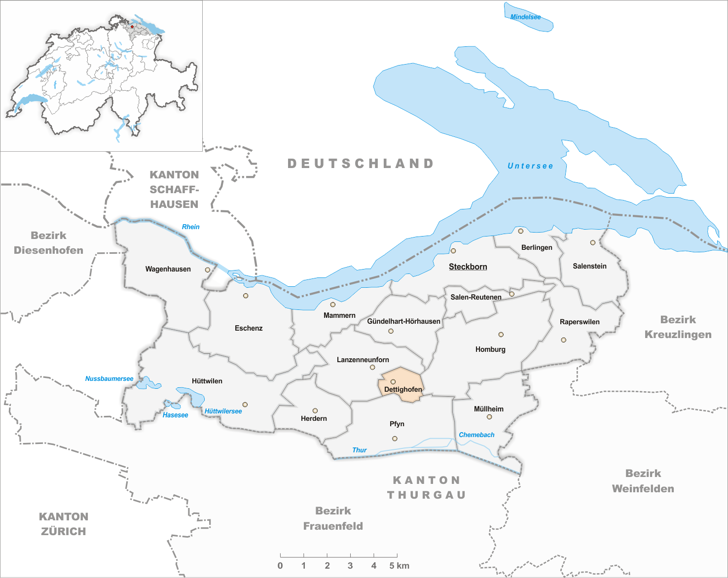 Municipality Dettighofen